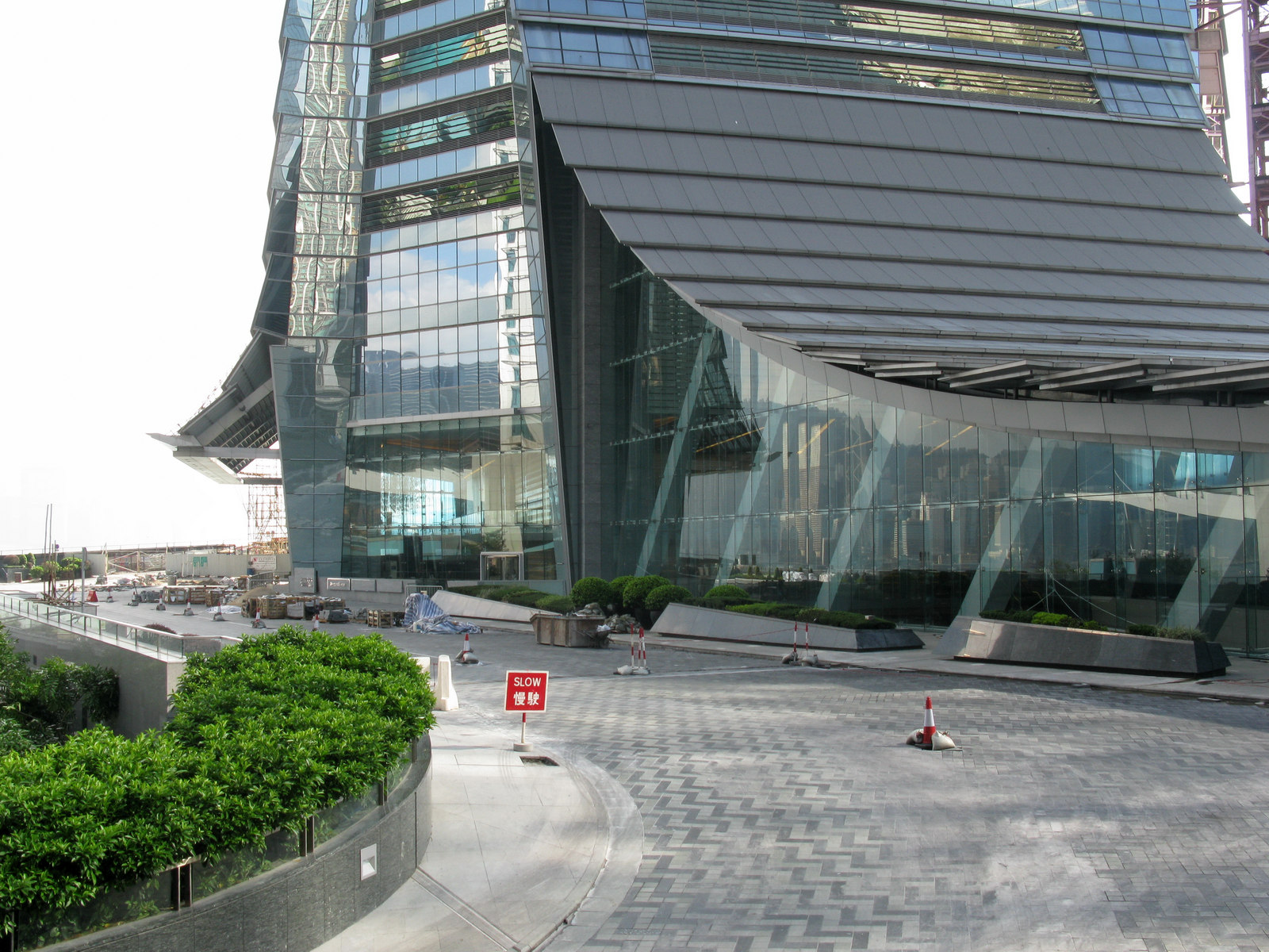 Construction progress of ICC had been stopped right after the six-death industrial accident.